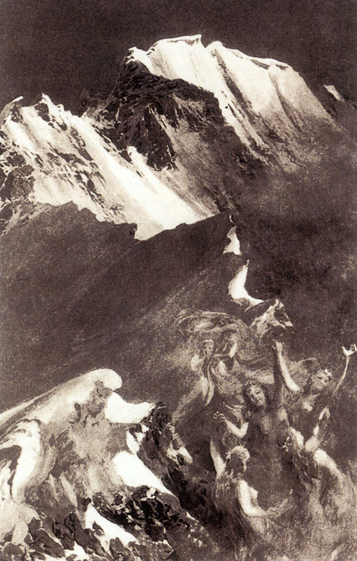 The Hochjochgrat and Ortler summit sen from Hochjoch. Mountain ghosts